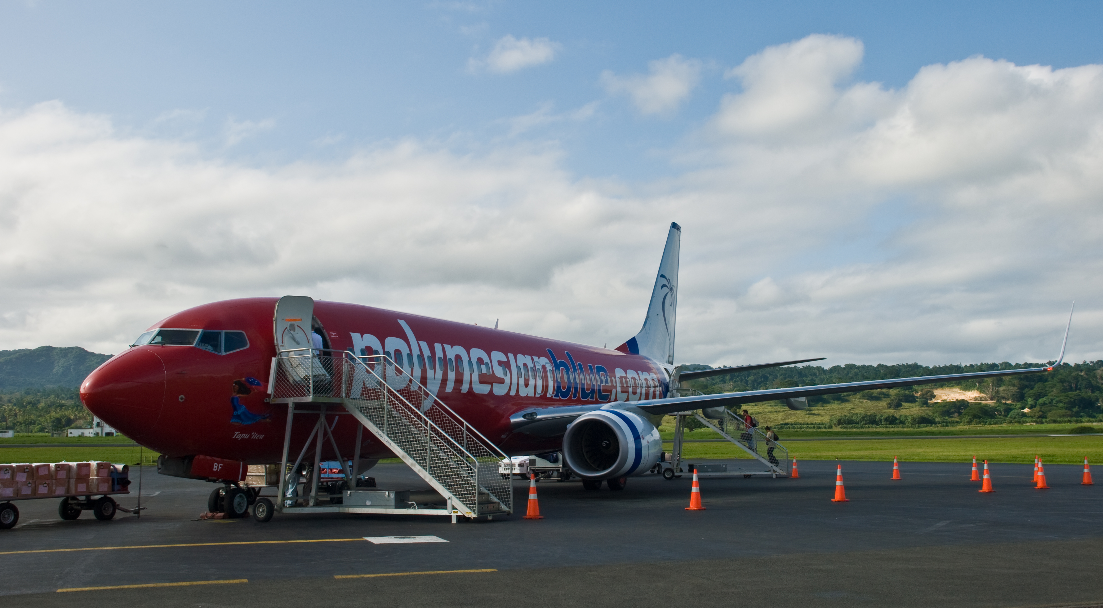 Polynesian Blue Boeing 737-800 (ZK-PBF) at Bauerfield International Airport, Port Vila, Vanuatu. Ready for boarding for a flight to Brisbane.